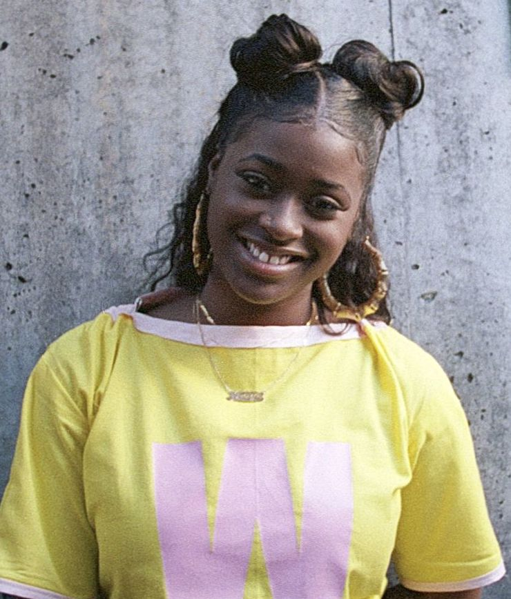 Tierra Whack performing at the Museum of Modern Art PS1 Warm Up on July 13, 2018 in New York City, New York.